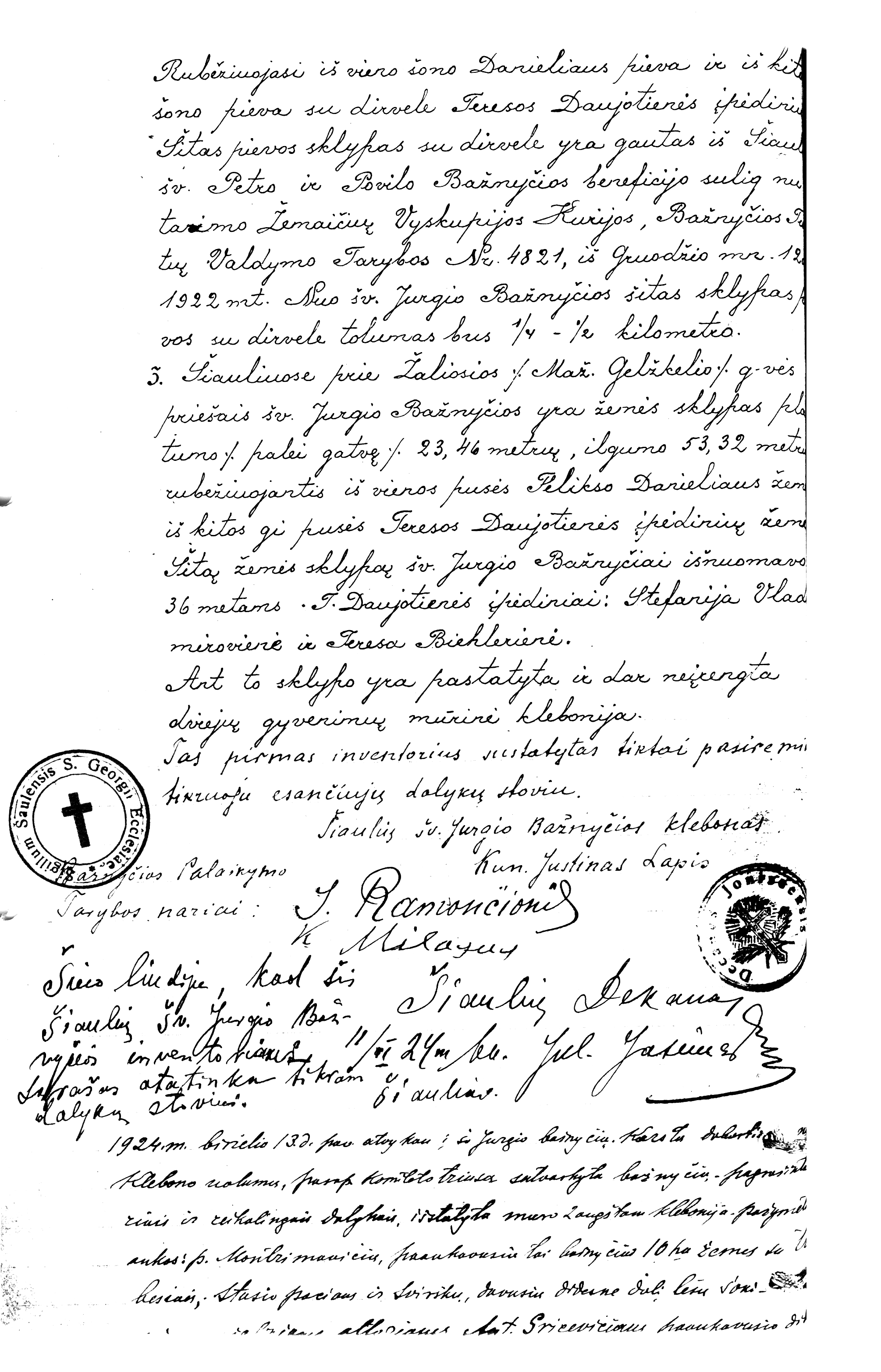 1924_06_11 act of Church of St. Georg in Šiauliai, Lithuania